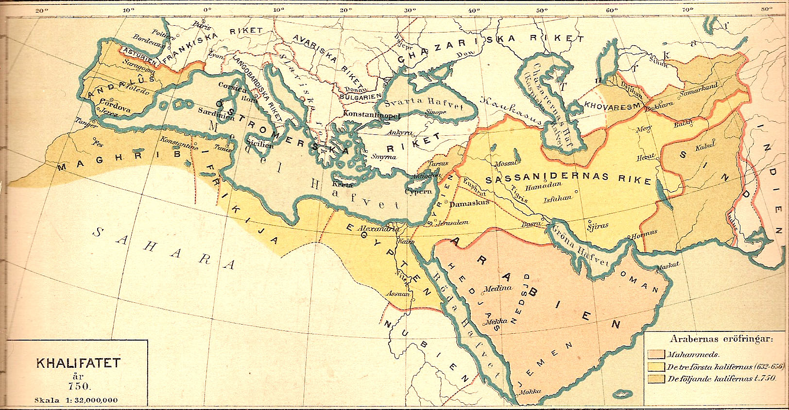 Historic map (swedish) of the Kalifat 750 ad.